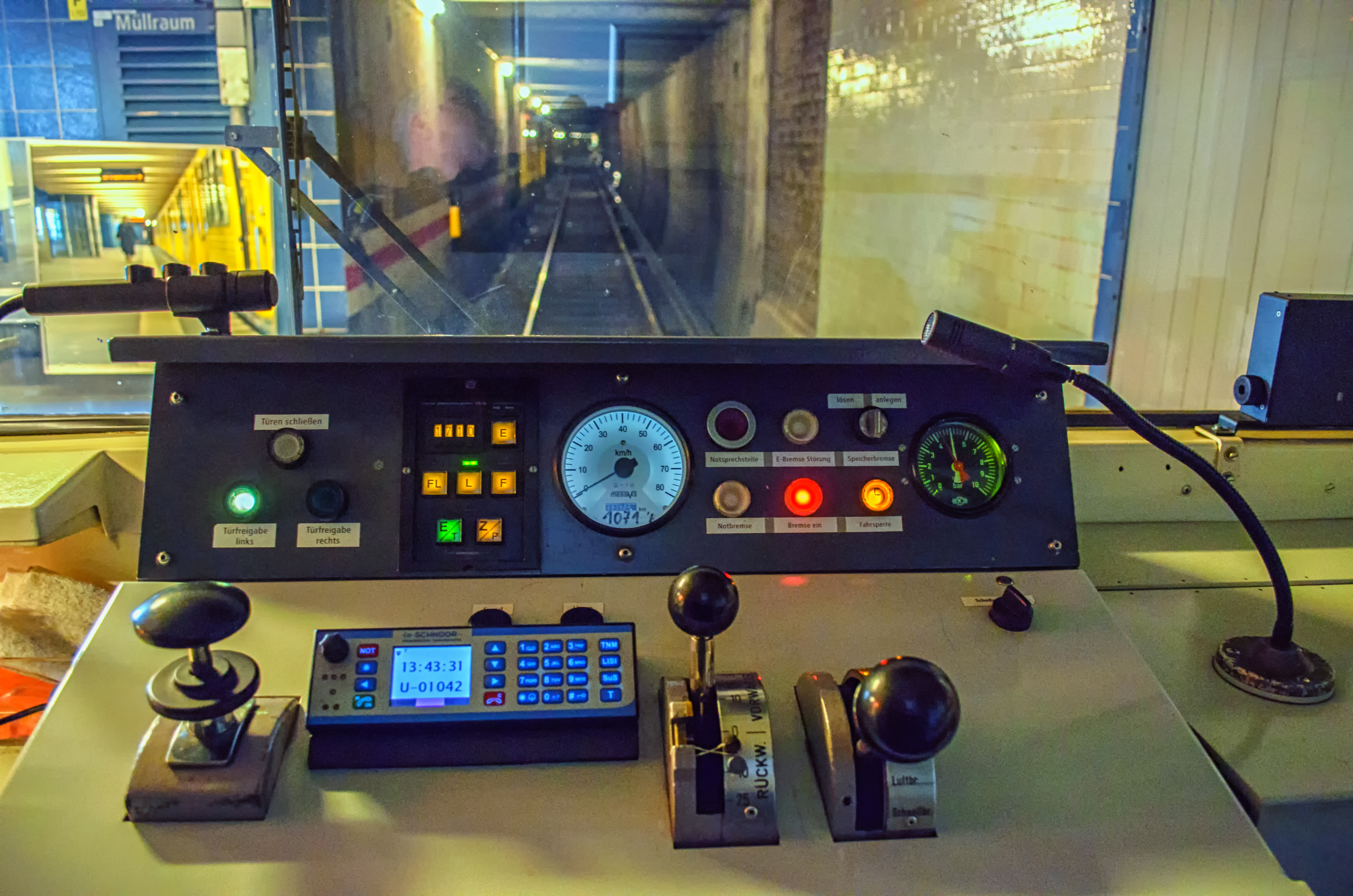 View of the driver's cab of GI/1E train of the Berlin U-Bahn